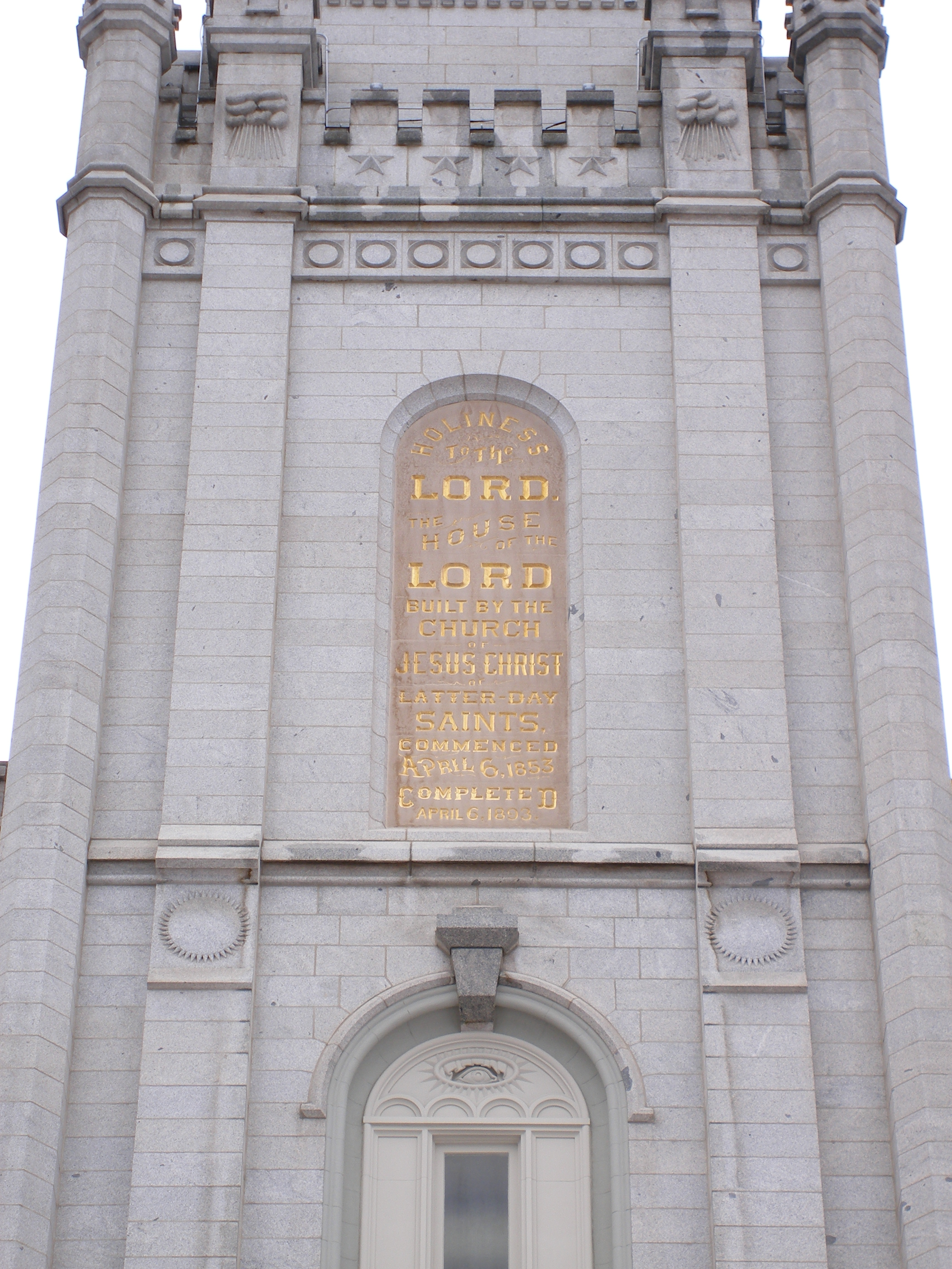 Photograph of the top of the east side Center Spire of the Salt Lake Temple showing "cloud of the Lord" stones, starstones, sunstones, and the all-seeing eye of God carving, taken by Derek P. Moore on February 27th, 2007.